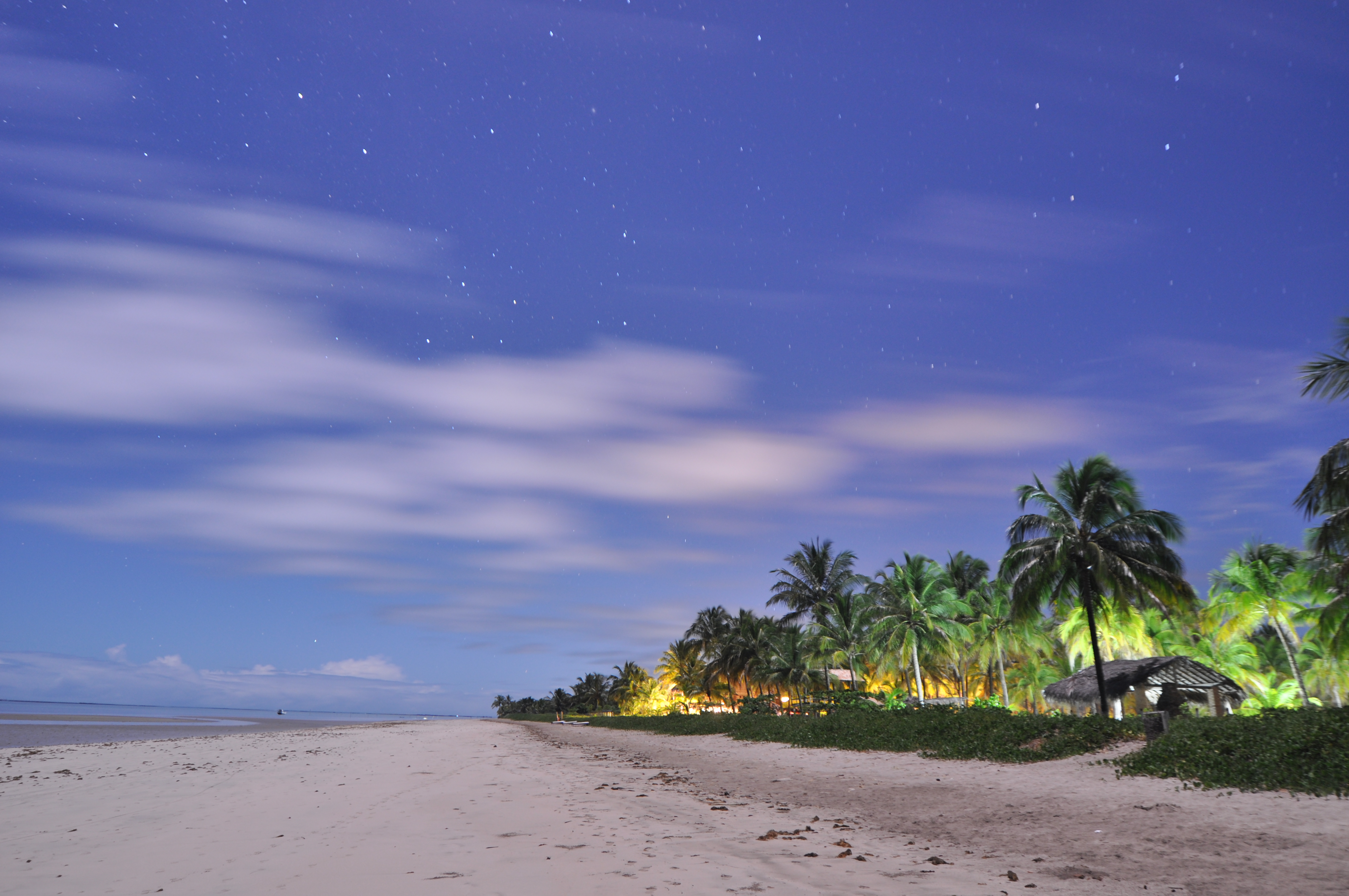 Alagoas, Brazil.